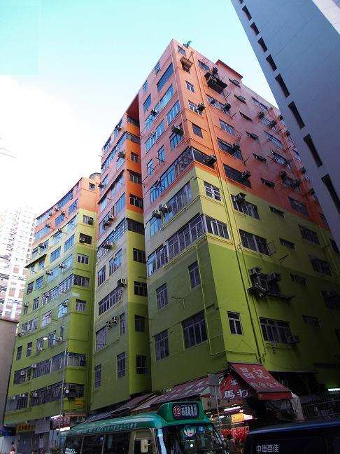 Western Court, Shek Tong Tsui, Hong Kong